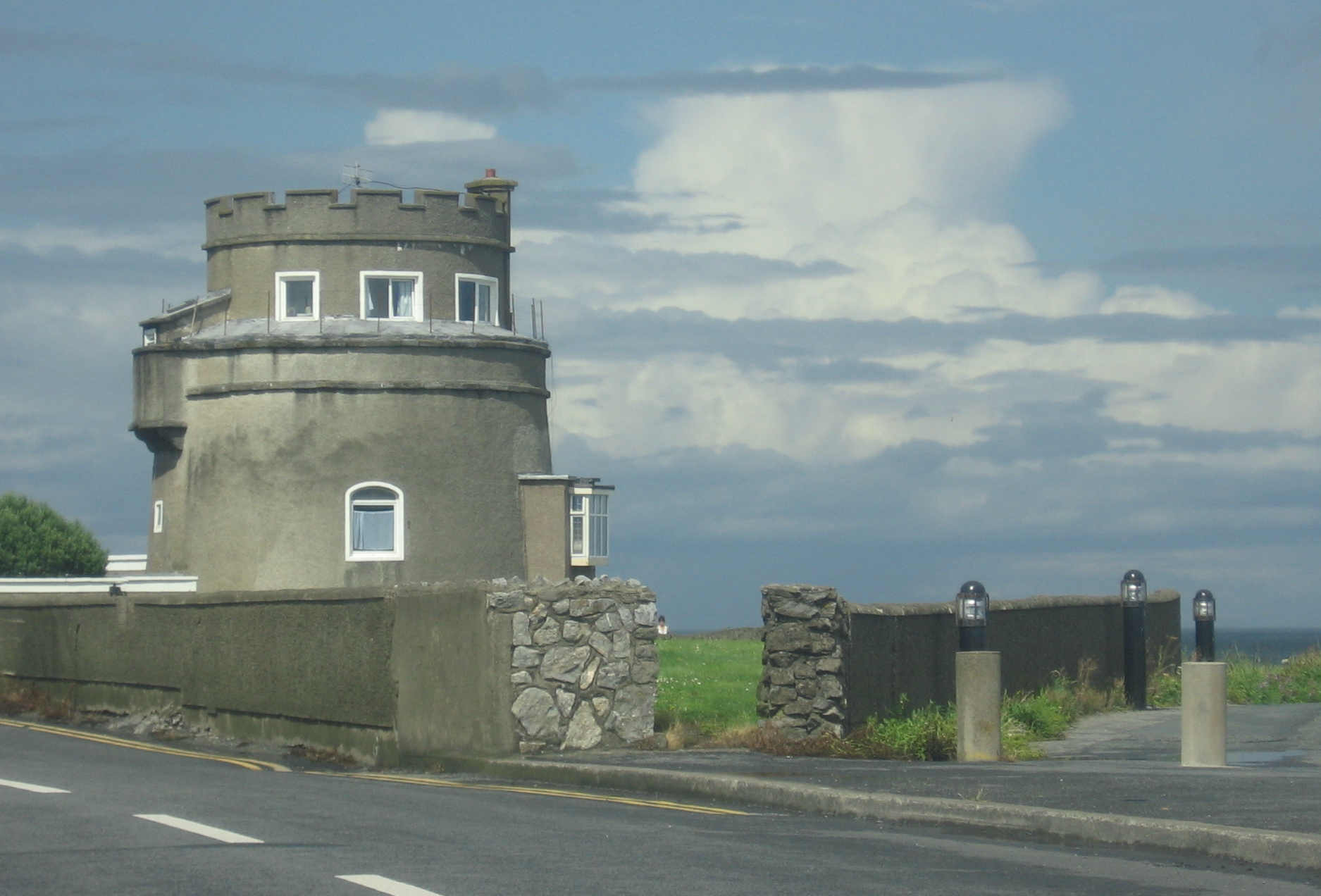 Martello Tower, Portmarnock, Co. Dublin, Ireland.